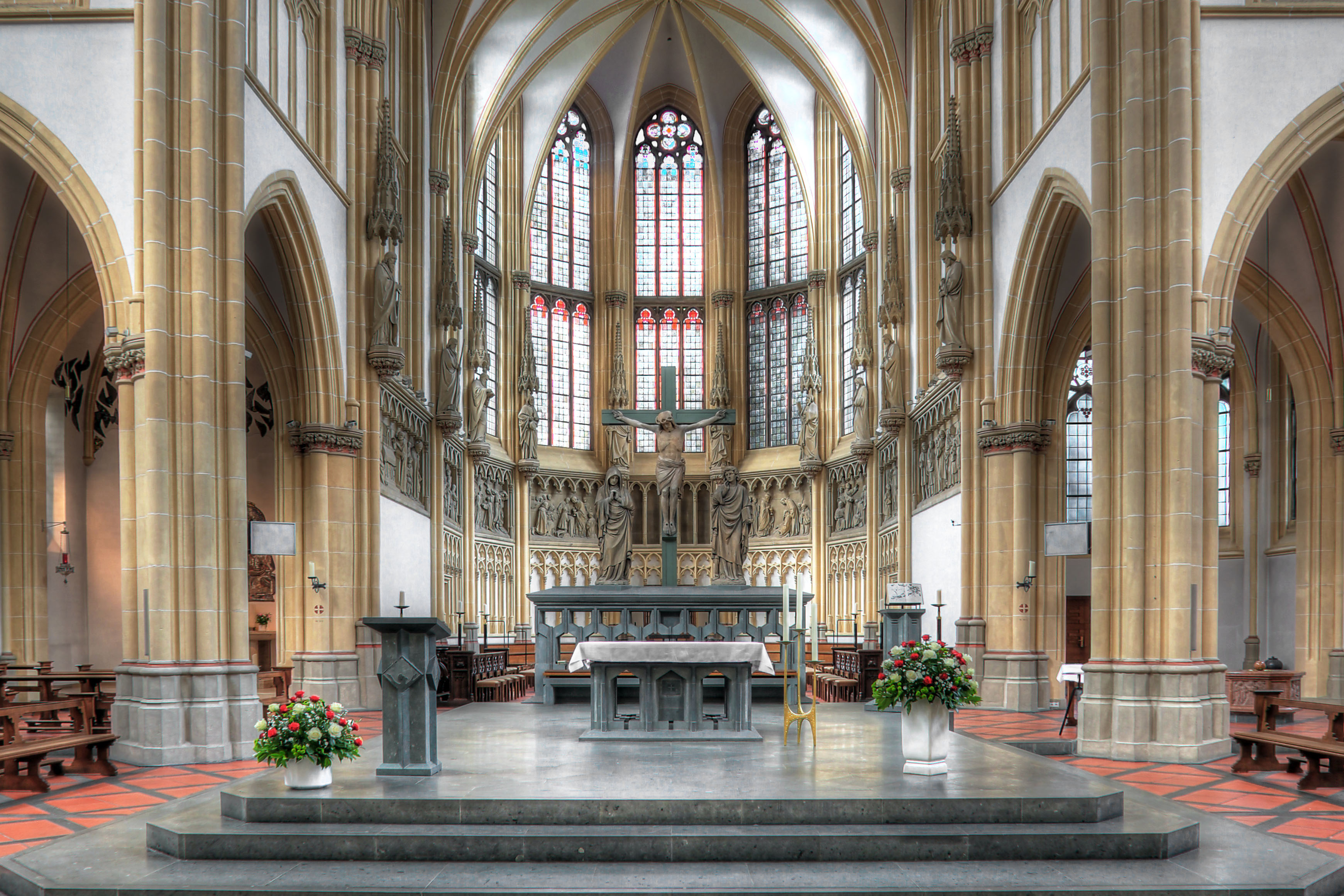 St. Joseph Münster 3